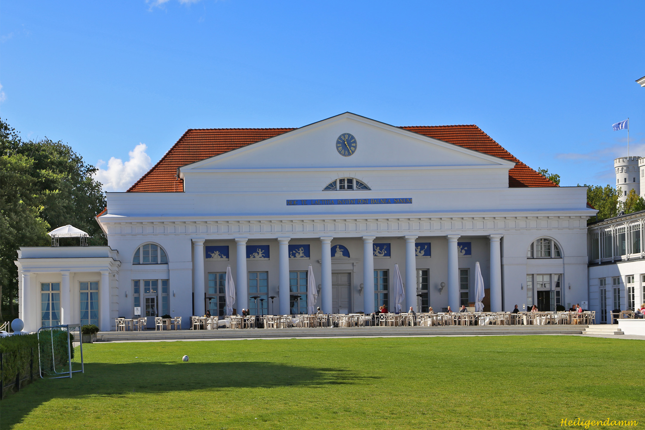 View of the Kurhaus Heiligendamm. Heiligendamm - a district of Bad Doberan - was founded in 1793 as a seaside resort and is the oldest seaside resort in Germany.